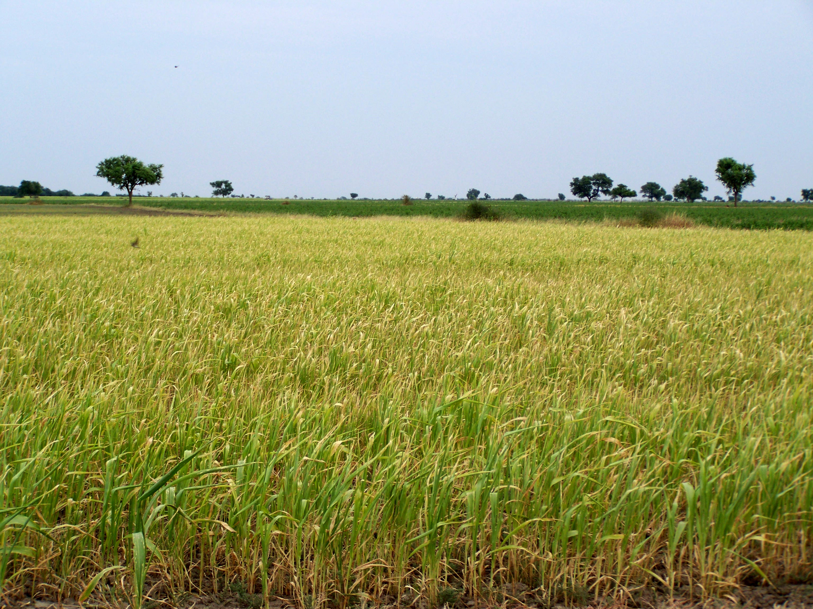 A field full of Bhaaliya Wheat (A wheat sub-species) in Bhaal region of Gujarat State